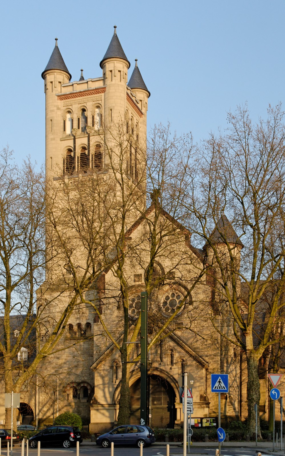 Saint Antonius in Düsseldorf-Friedrichstadt, Germany